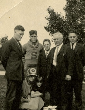 Group shot of members of George W. Romney's family of origin taken in 1921, after its move to Sugar City, Idaho, assembled at the grave site of family member Lawrence Romney (1909–1921). From the left, sitting: his mother (Anna) with his sister Meryl; standing: his brother Maurice, himself, his brother Charles, his father (Gaskell) and his brother Douglas